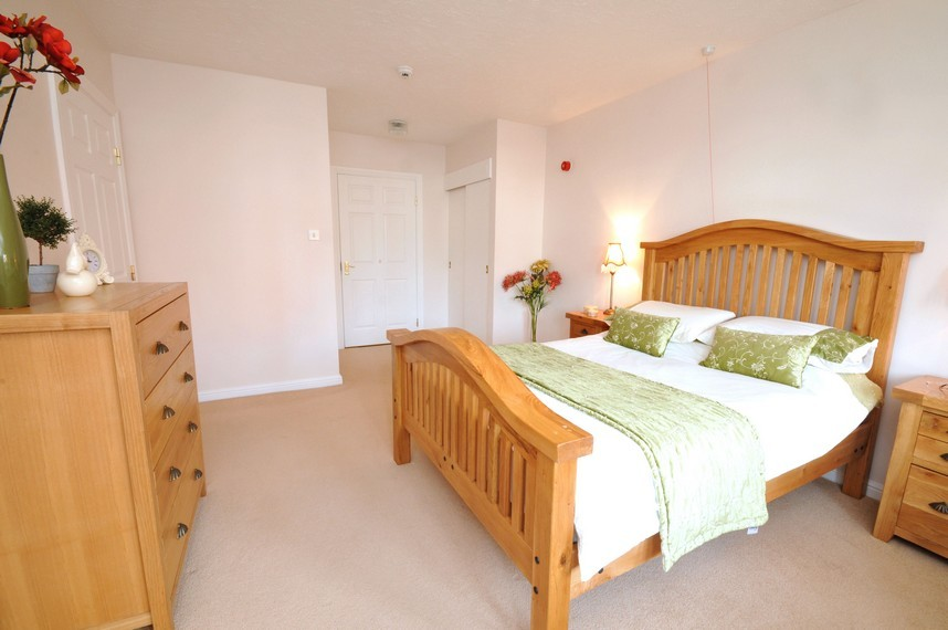 The Hawthorns Eastbourne Retirement Village East Sussex Carew Road